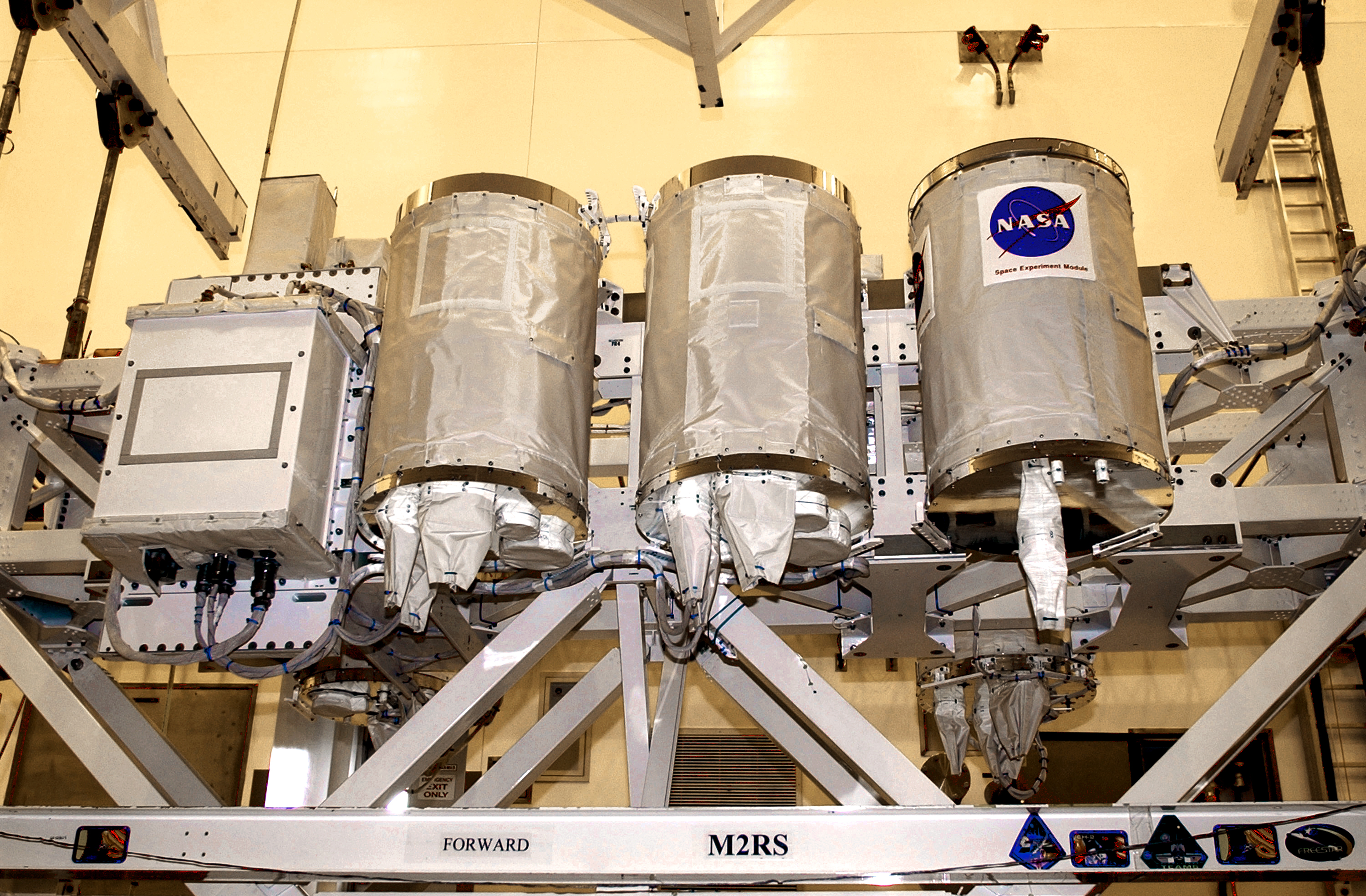 In the Multi-Payload Processing Facility, the Hitchhiker Bridge with GetAway Special canisters (GAS cans) are ready for transfer to the payload canister. The bridge is a carrier for the Fast Reaction Experiments Enabling Science, Technology, Applications and Research (FREESTAR) that incorporates eight high priority secondary attached shuttle experiments on mission STS-107